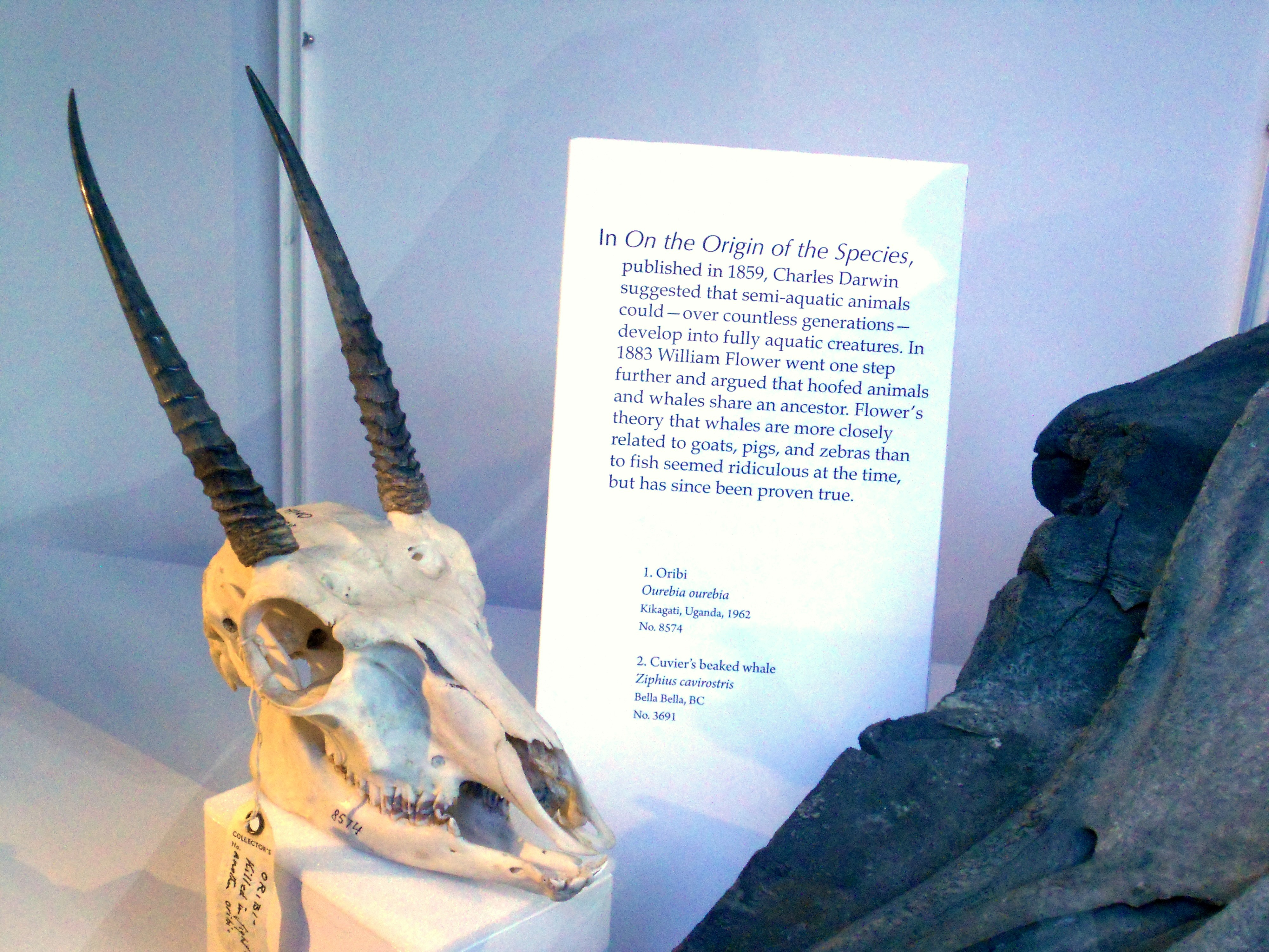 Beaty Biodiversity Museum LocationVancouver, British Columbia, CanadaCoordinates49° 15′ 48.96″ N, 123° 15′ 05.04″ W Established2010Web pageBeaty Biodiversity MuseumAuthority control : Q4120770 institution QS:P195,Q4120770